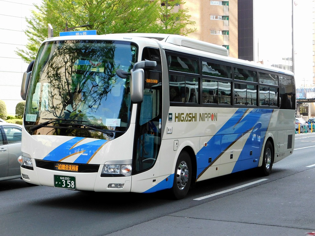 Higashinippon experss Mitsubishi Fuso Aero Ace (LKG-MS96VP)